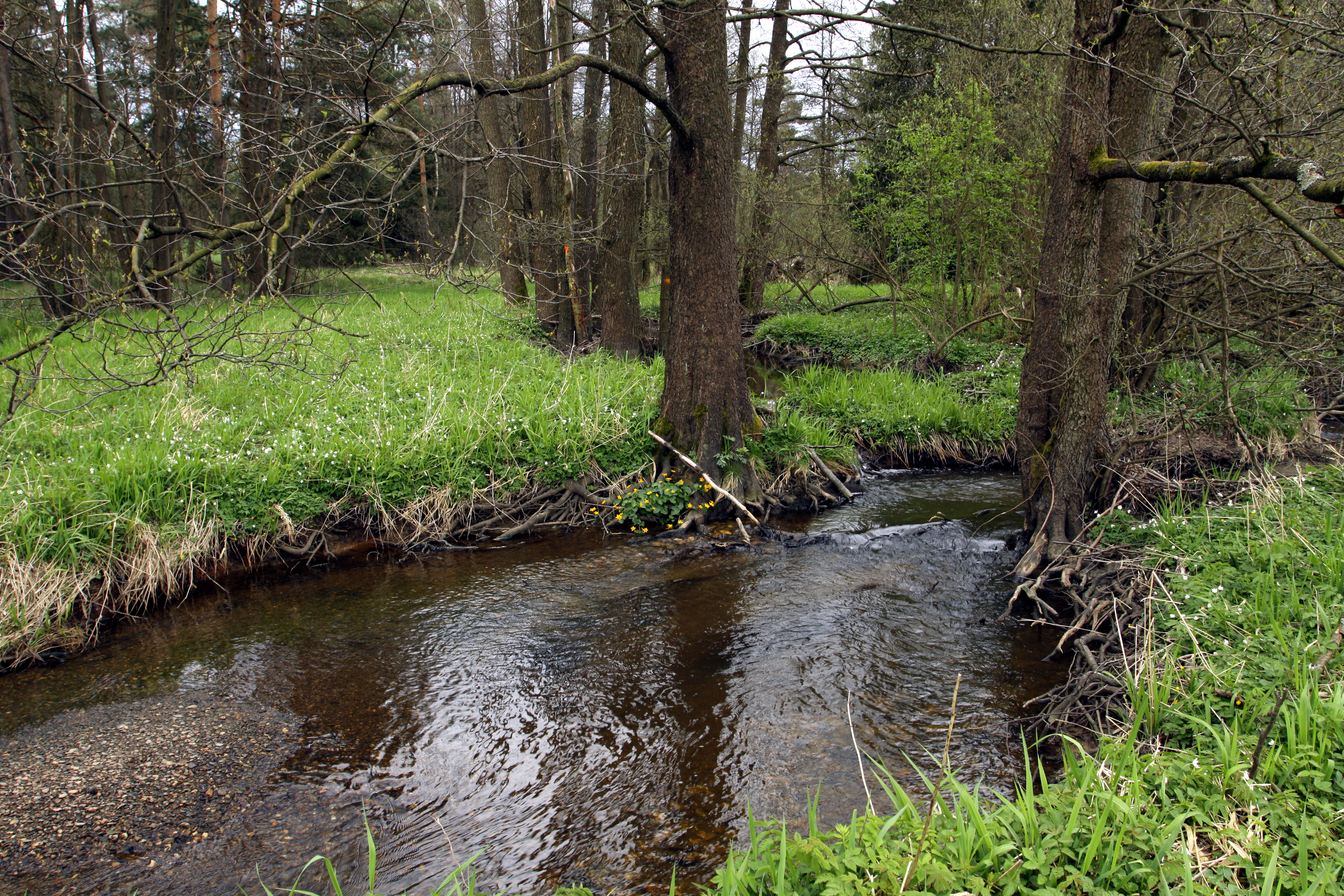 National natural monument Lužní potok in Cheb District, Czech Republic